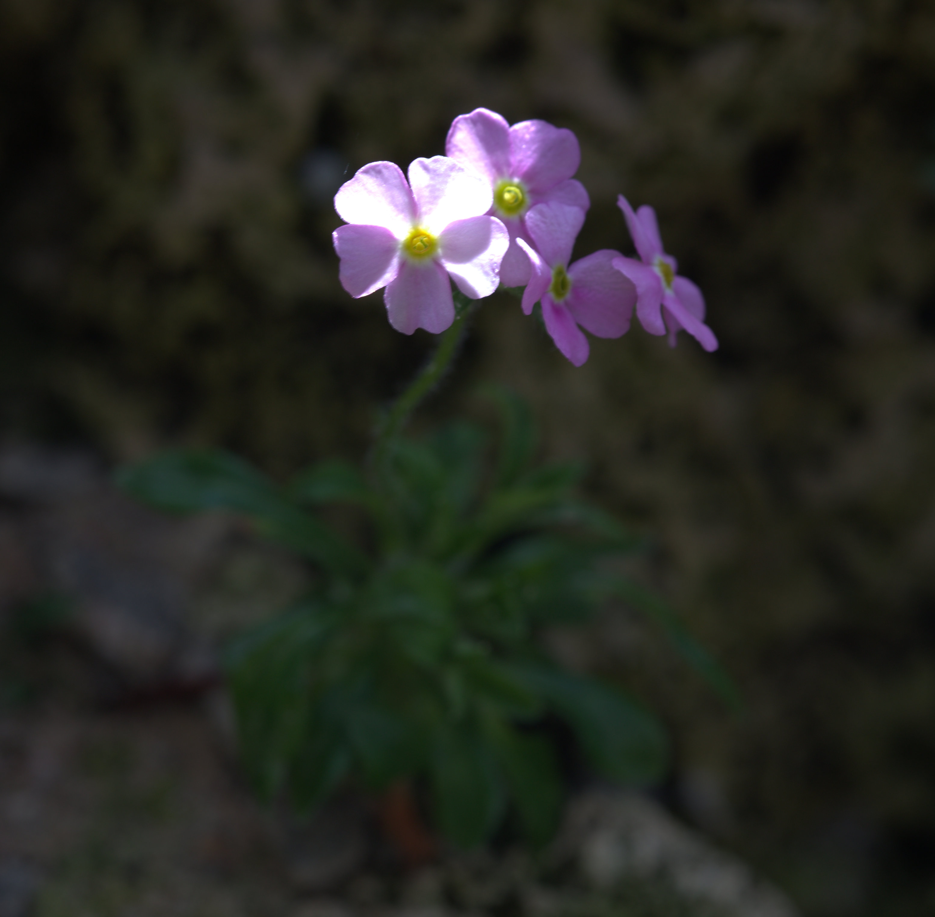 Androsace rigida in Gotheburg Botanical Garden in 2015. Plant id: 2012-2088